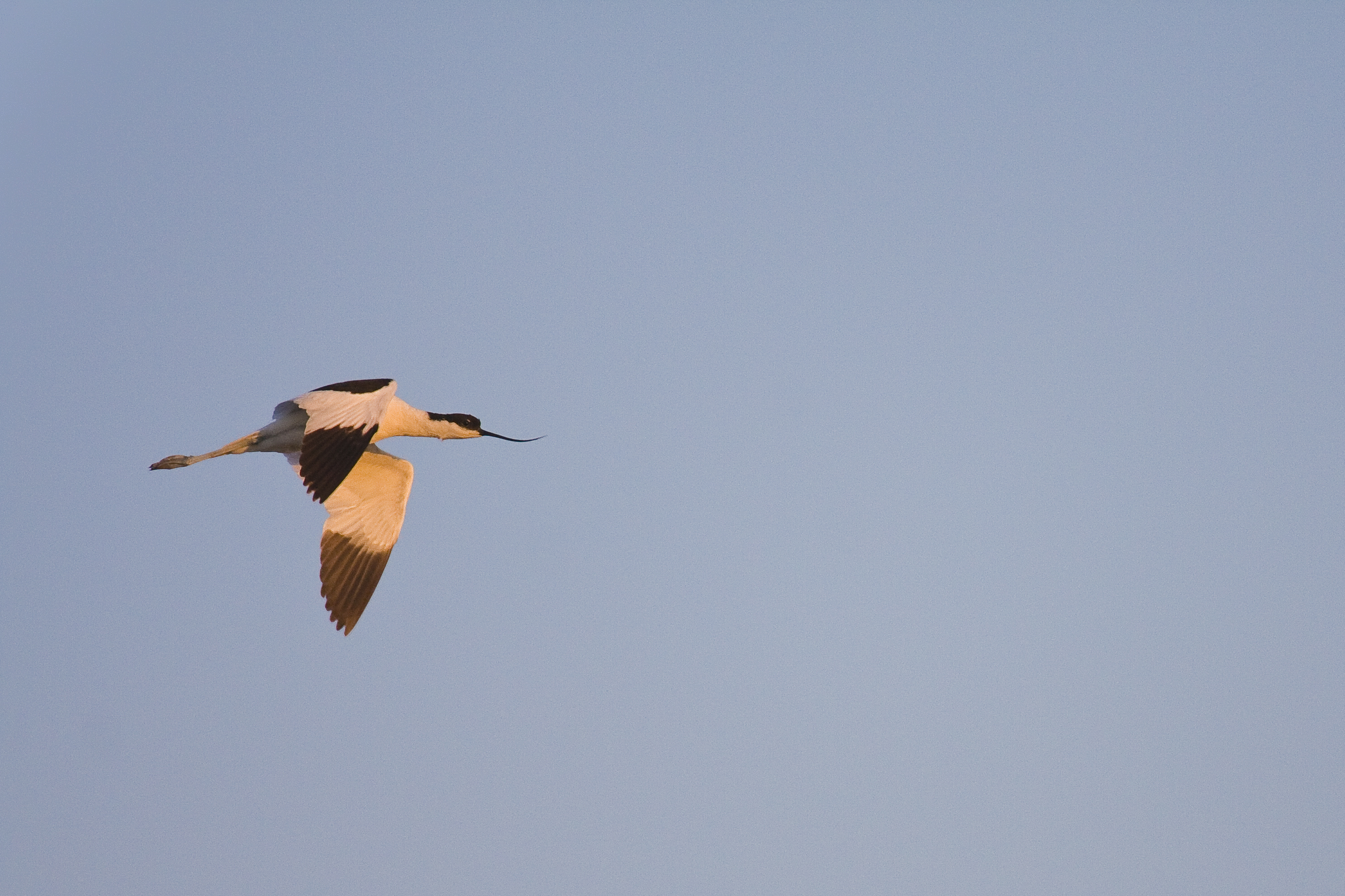 Avoset_(Recurvirostra_avosetta)_in_flight This is a photography of Natura 2000 protected area with ID GR1220005